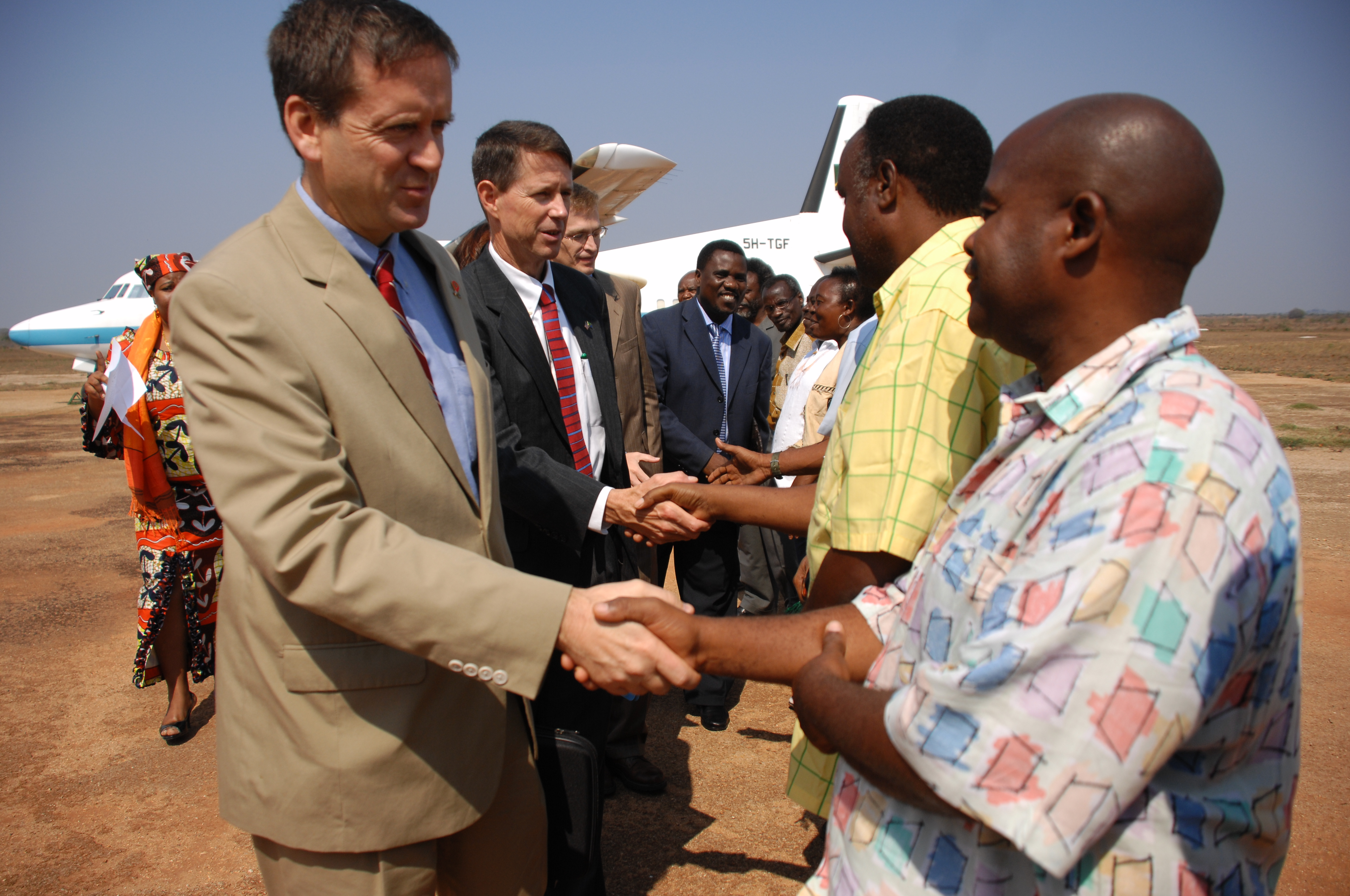 United States Ambassador Mark Green and Paul Monger, chief of staff, Combined Joint Task Force - Horn of Africa, are greeted by Tanzania's ministers and staff after landing in Lindi Sept. 13, 2008. Combined Joint Task Force - Horn of Africa and the U.S. Agency for International Development work together to improve international relations in Tanzania.